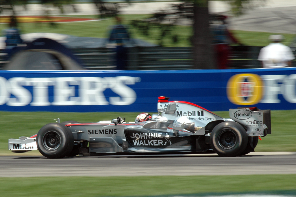 Kimi Räikkönen driving for McLaren at the 2006 United States Grand Prix.